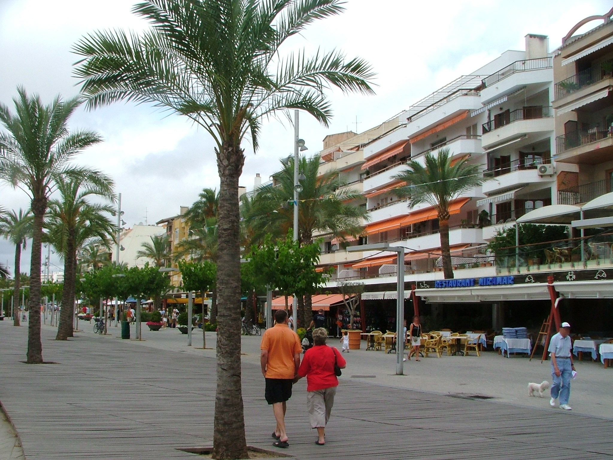 Passeig Maritim in Port of Alcudia, Mallorca, Spain